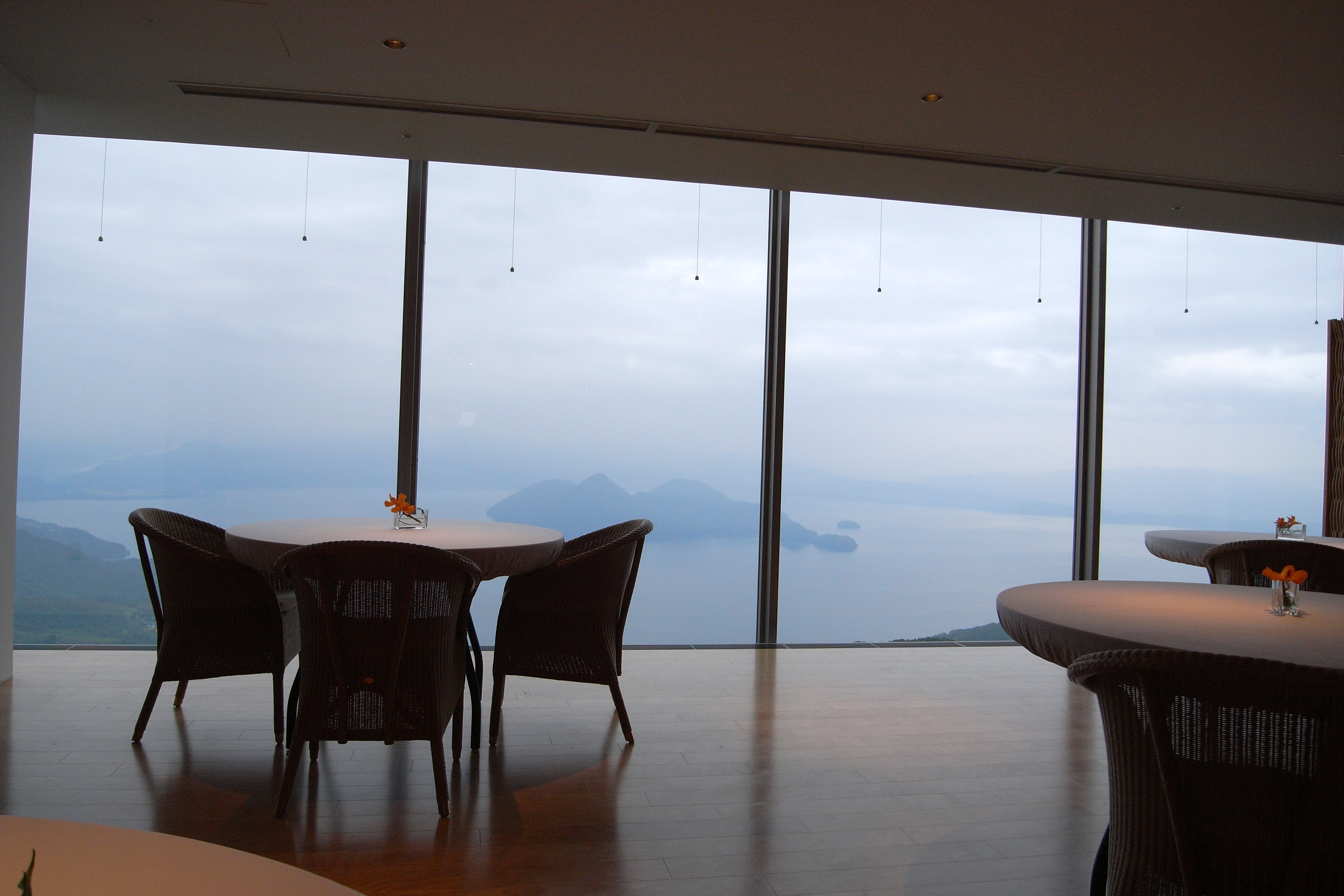 洞爺湖が広がる！！nice view!